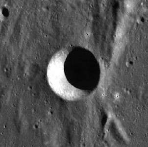 Andersson crater, on the far side of the moon. Mosaic of LRO WAC images. Aspect ratio adjusted from Mercator Projection.